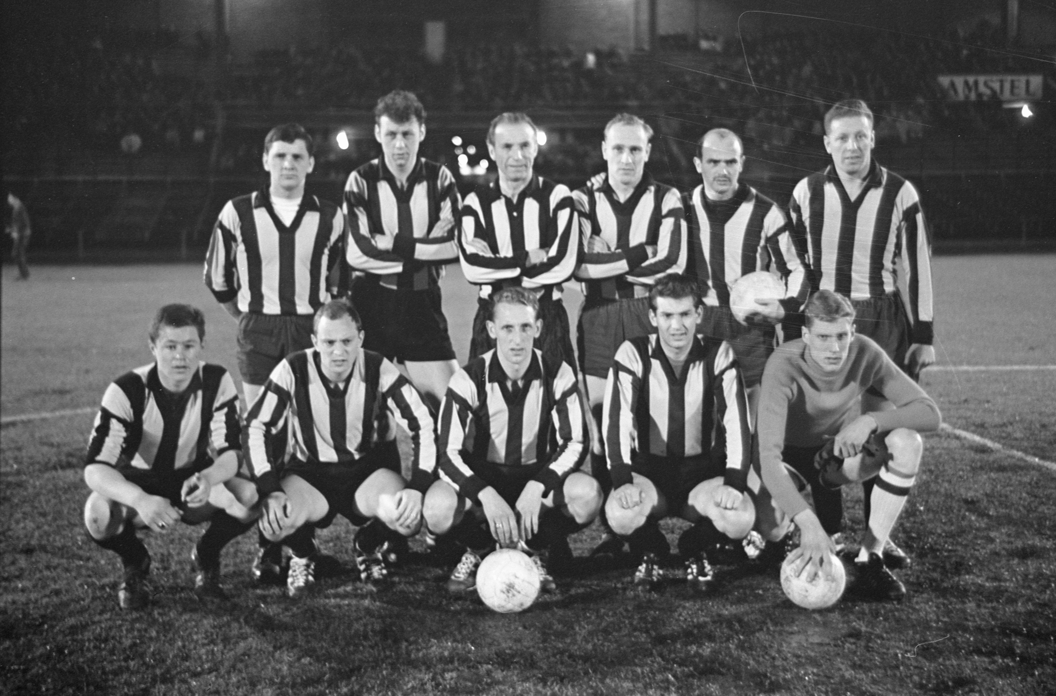 Dutch amateur football team DWV (Amsterdam) with guest player Stanley Matthews; match in Olympic Stadium Amsterdam against Volewijckers, 4 April 1962. Shirts DWV: yellow & black. Matthews standing, 3rd from left.